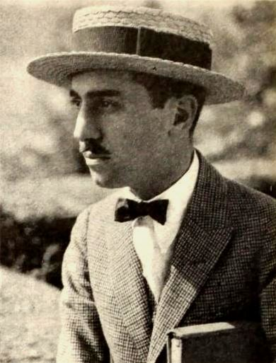 American film director Sidney A. Franklin, on page 46 of the October 12, 1918 Exhibitors Herald.